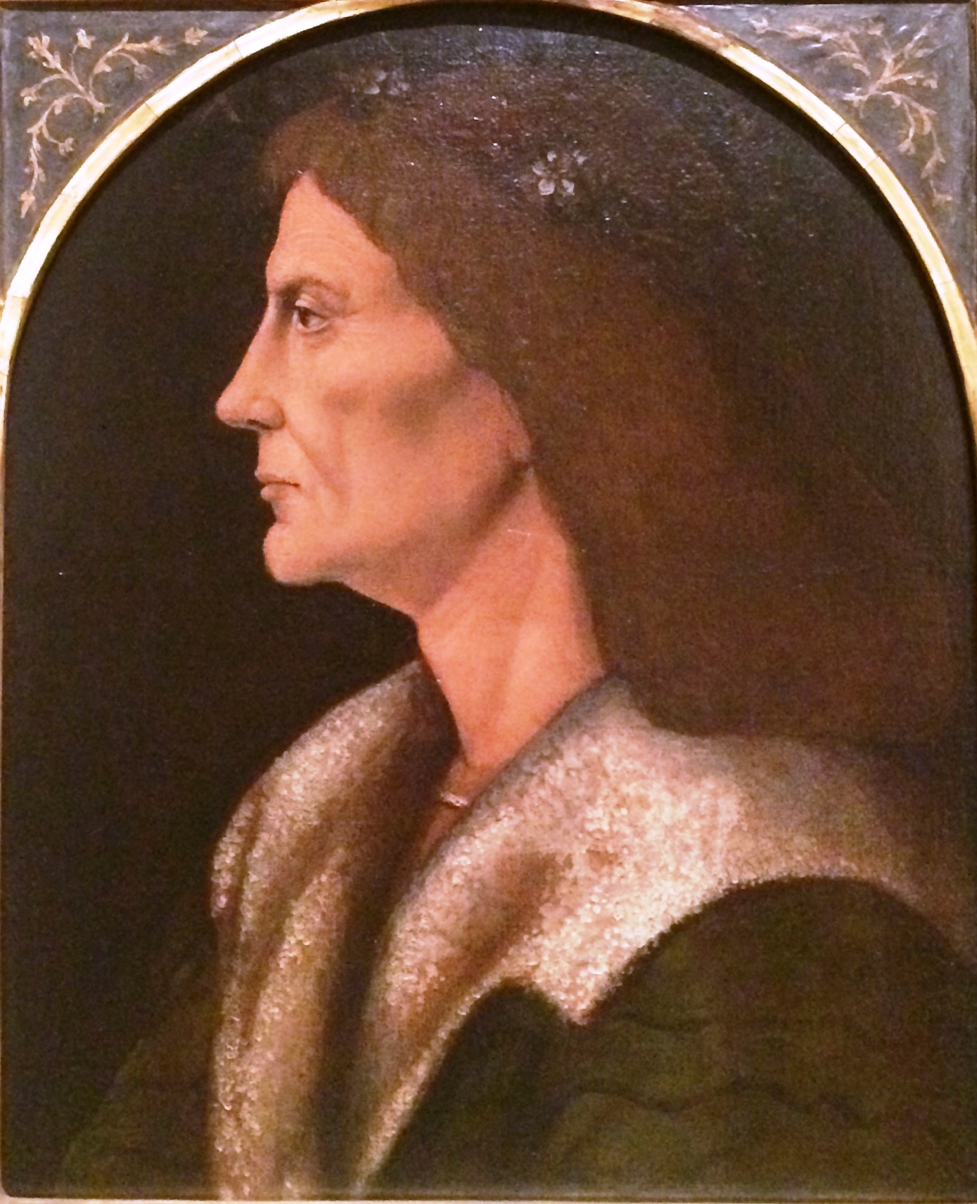 Painting by an unknown italian master, from the 1510s, depicting King Matthias of Hungary.